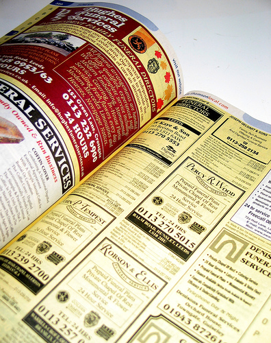 An open yellow pages type phone book